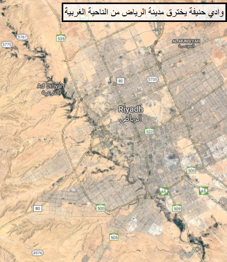 Wadi Hanifa running through Riyadh